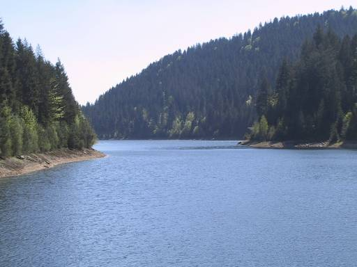 Storage Lake Kleine Kinzig near Alpirsbach, Black Forest, Germany